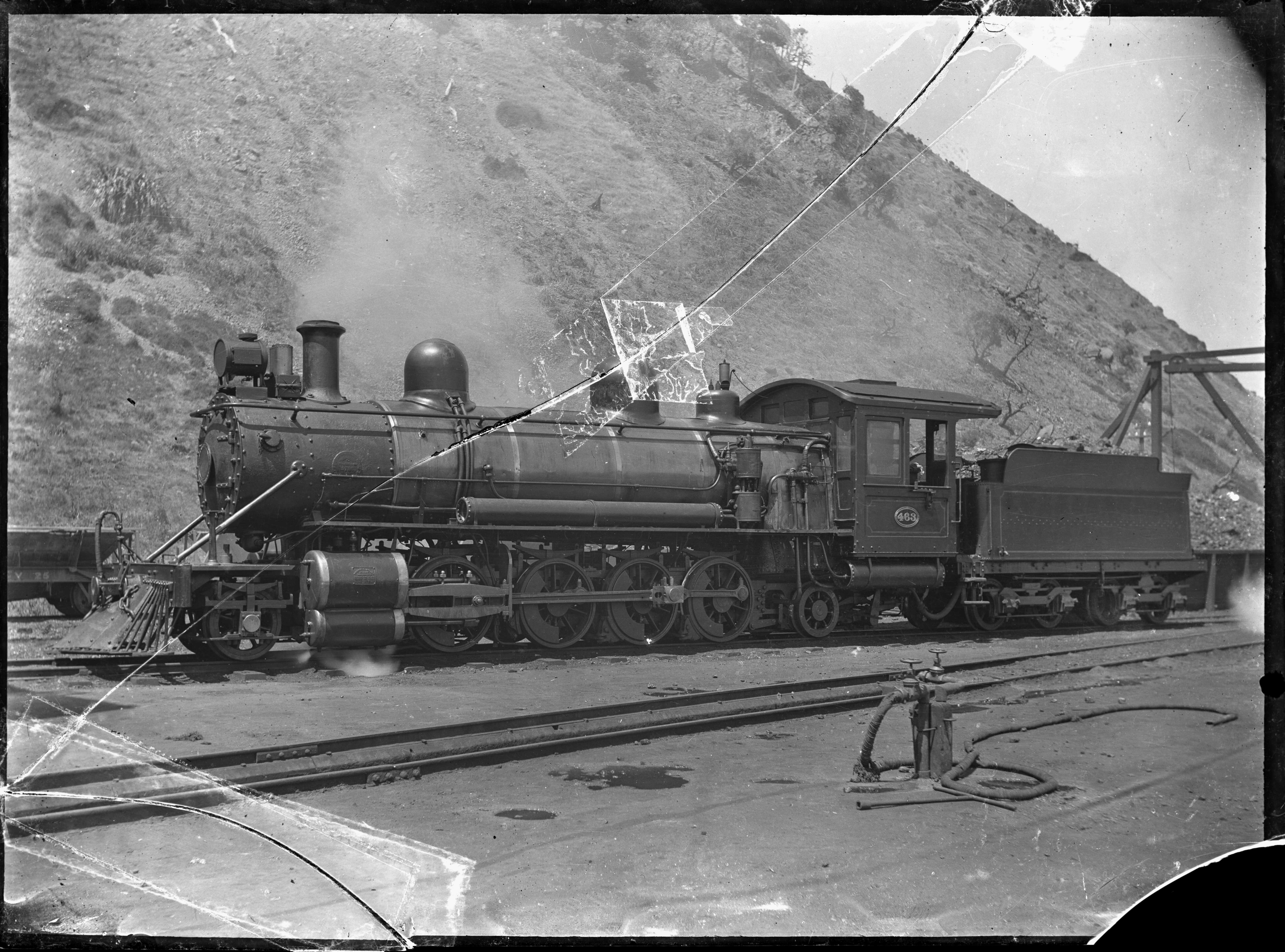 Bc class steam locomotive, NZR no 463, photographed by Albert Percy Godber.